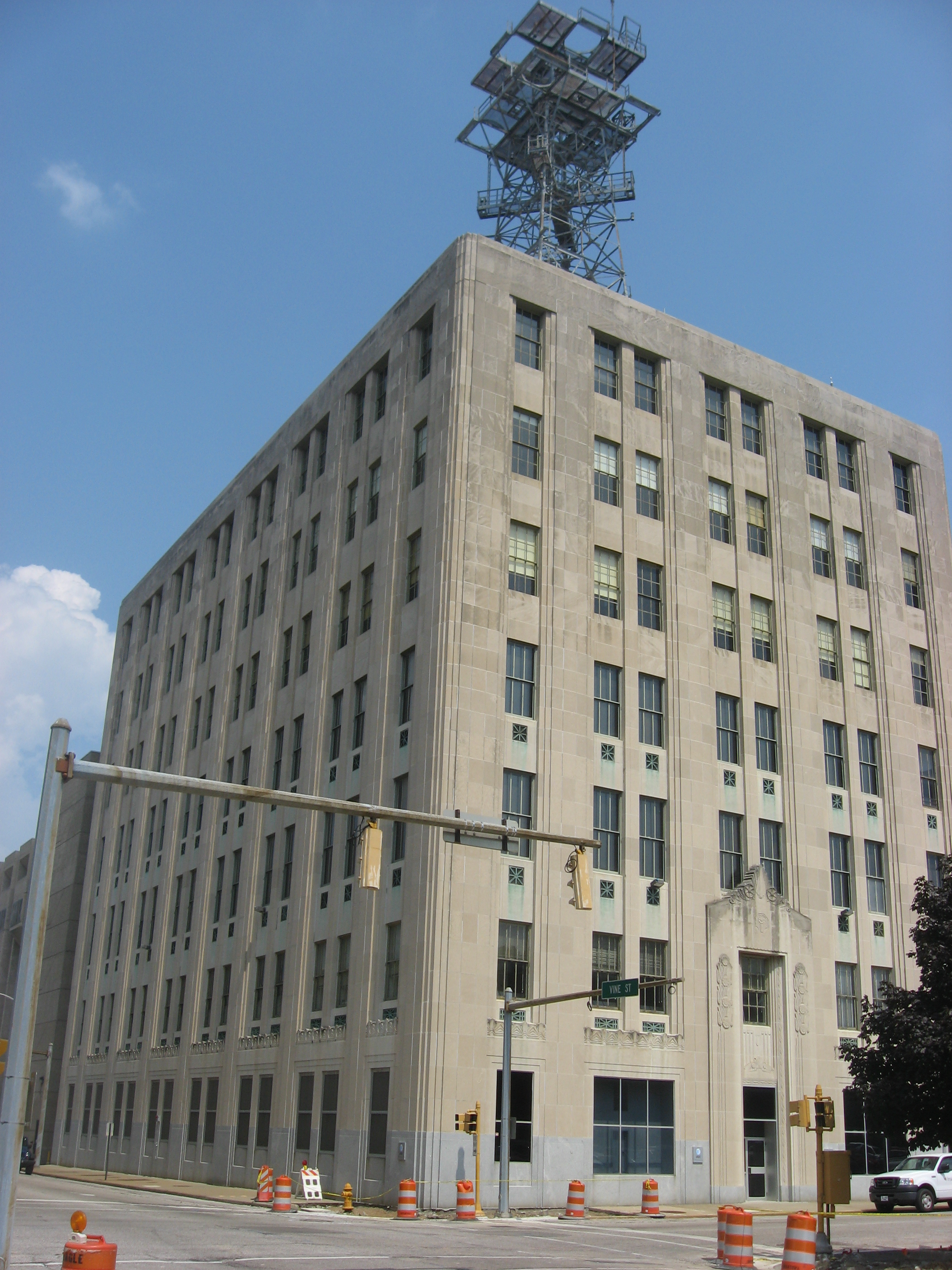 Front and side of the Indiana Bell Building, located at 129-133 NW. Fifth Street in Evansville, Indiana, United States. Built in 1929, it is listed on the National Register of Historic Places.